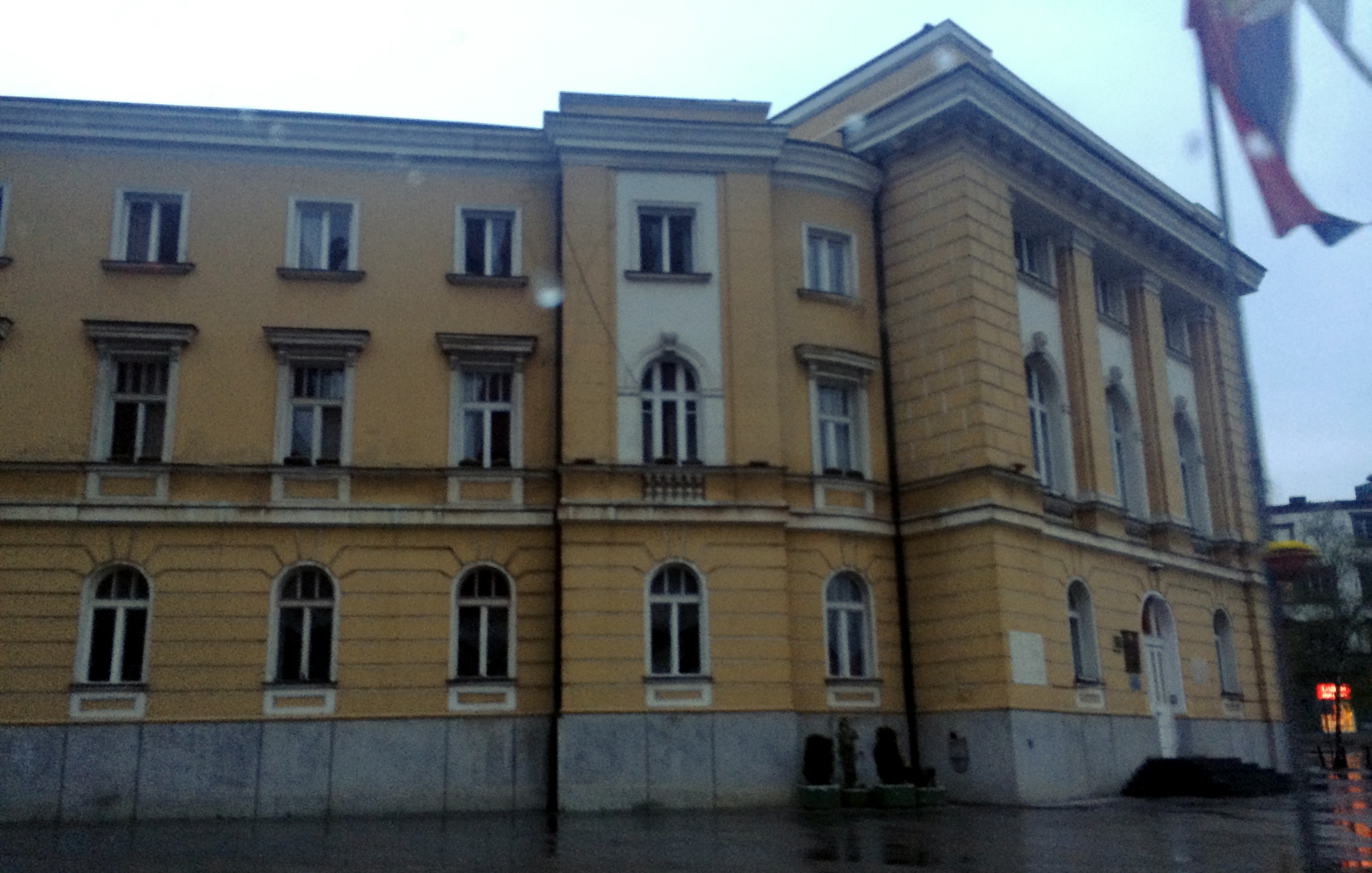 Image from the central parts of Užice city, in western Serbia.